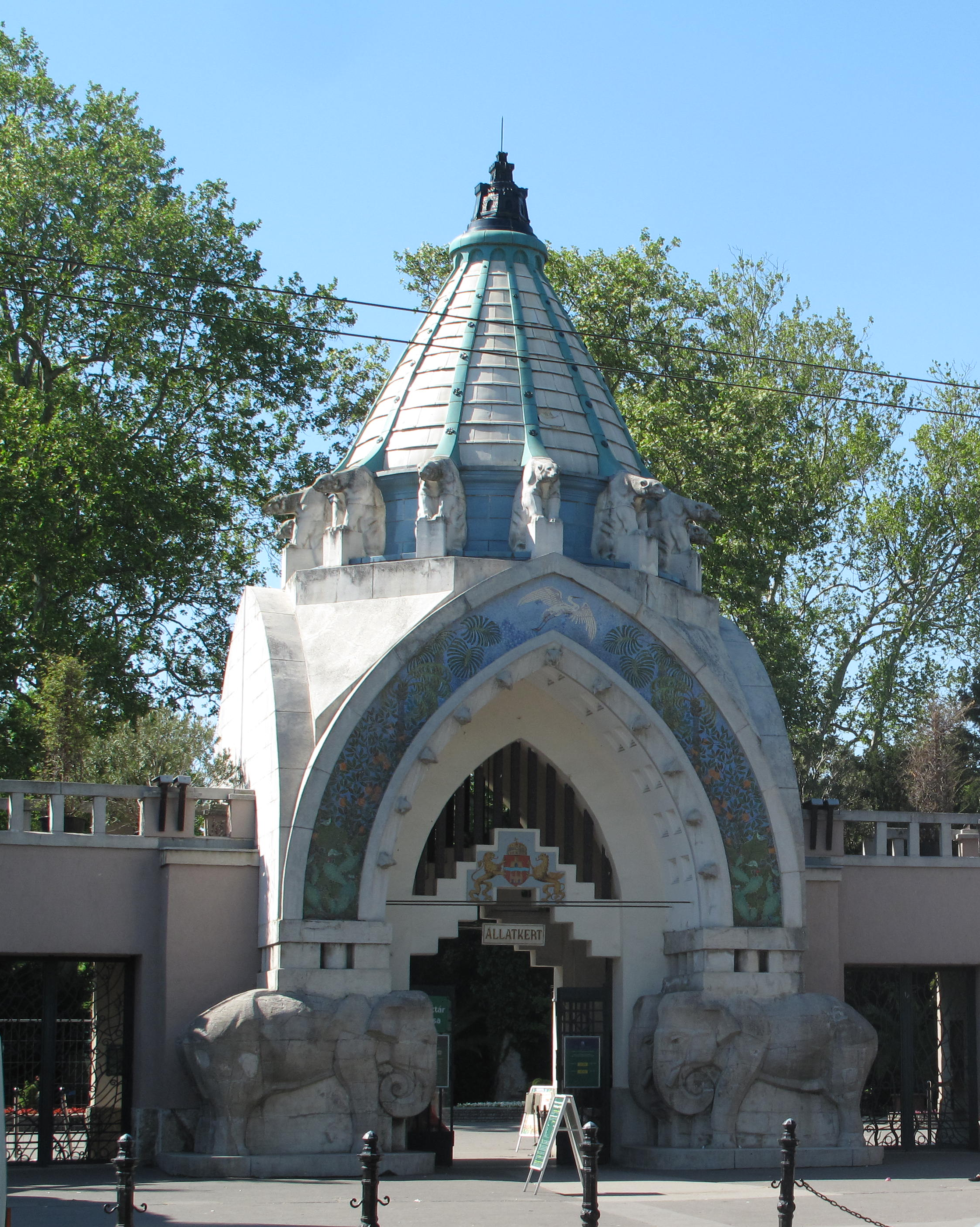 Gate of Budapest Zoo